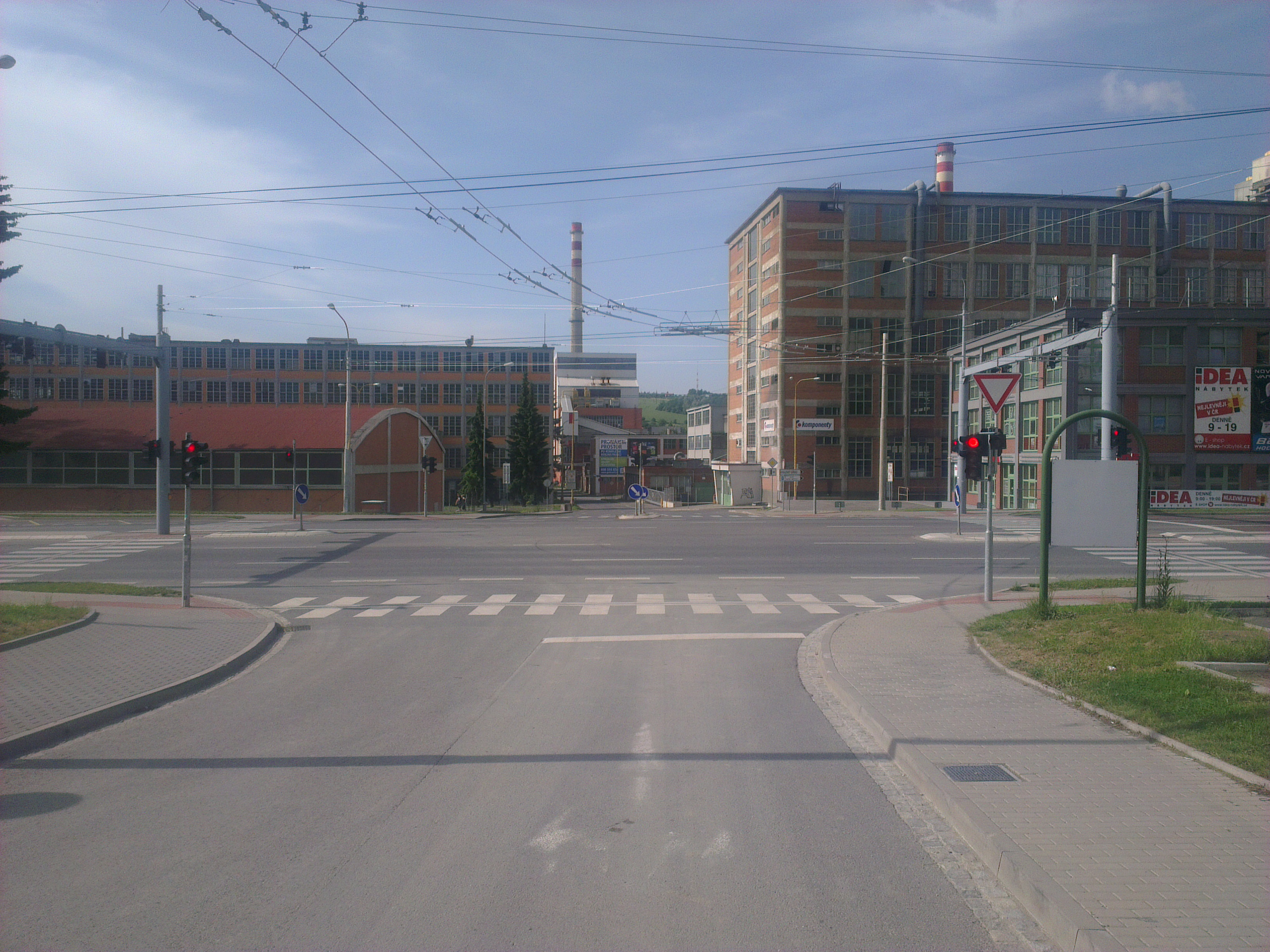 Trolleybus terminal (final stop) Antonínova in construction, Zlín